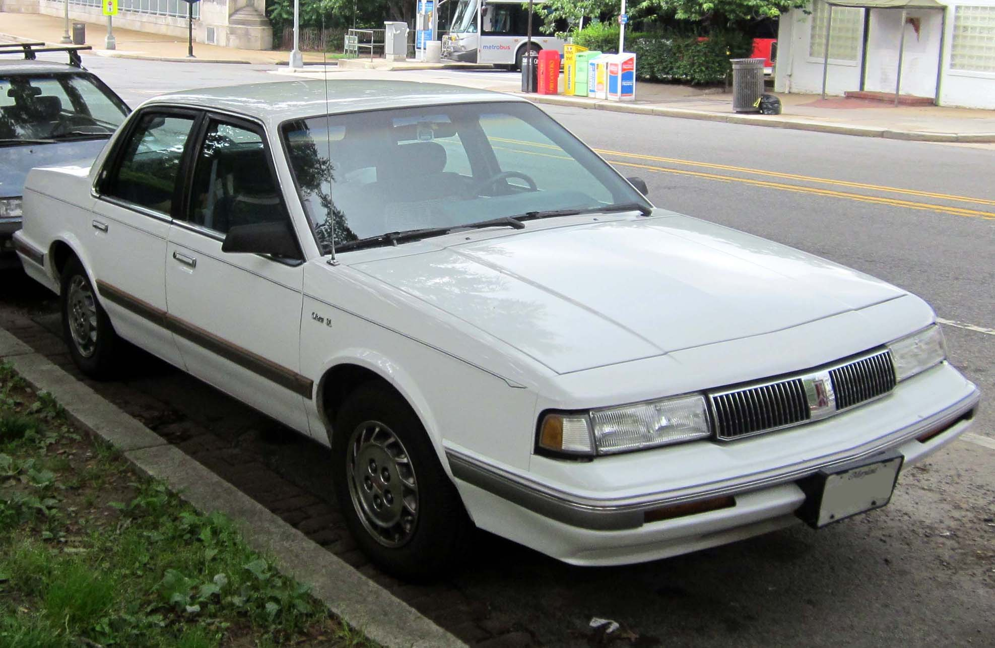 1996 Oldsmobile Ciera photographed in Washington, D.C., USA.